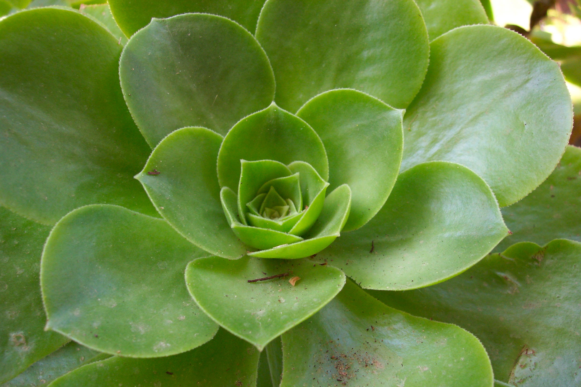 Flora of Israel